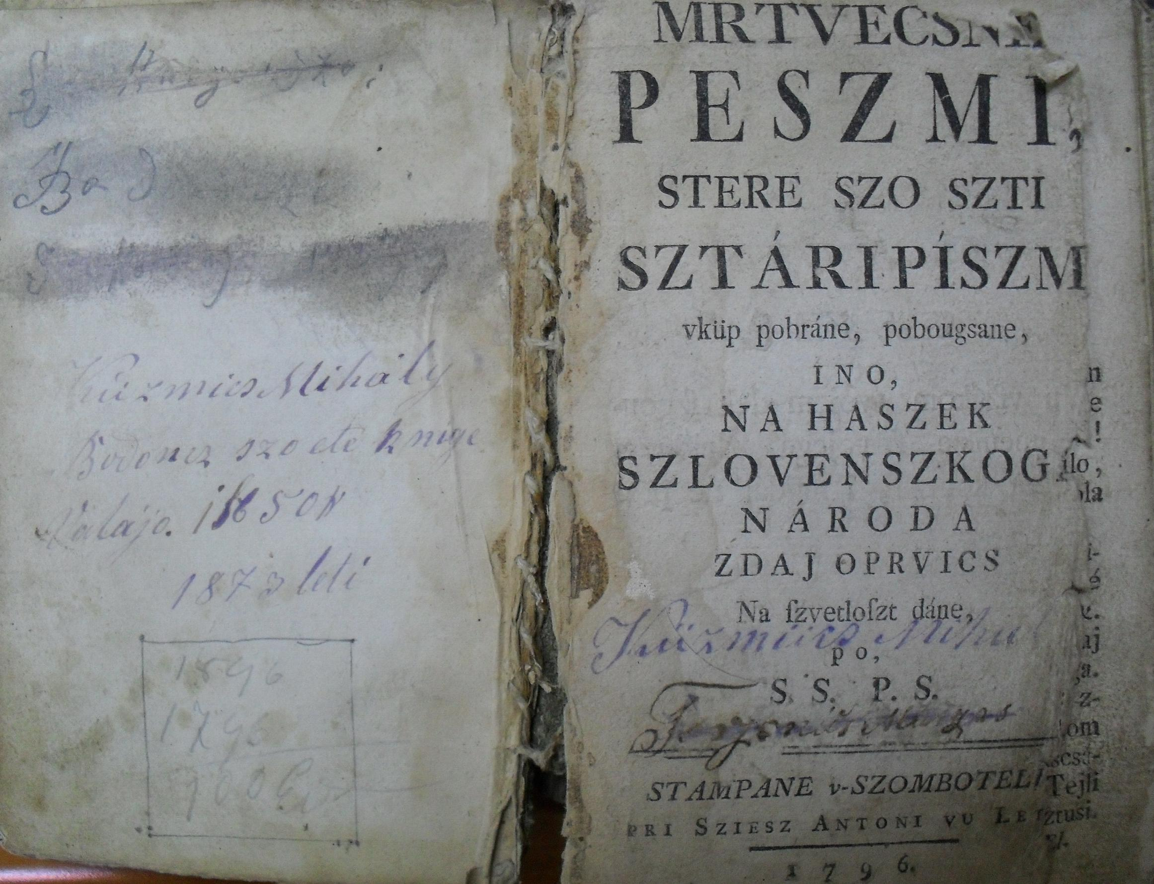 The Mrtvecsne peszmi (Dead Hymns) prekmurian (prekmurščina) sepulchral hymn-book from 1796, by István Szijjártó (1765-1833). Sometime property of Mihály Küzmics.